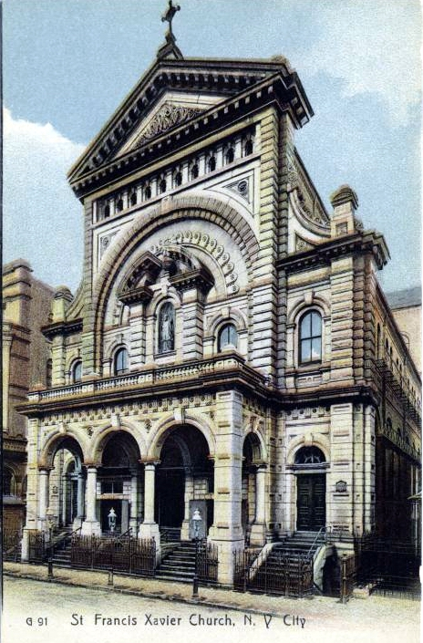 c.1900 postcard view of facade of St Francis Xavier Church, Manhattan